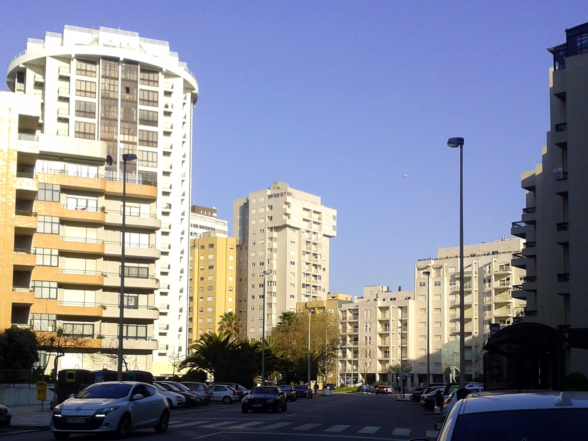 Av. Repatriamento dos Poveiros and Vasco da Gama intersection, Póvoa de Varzim, Portugal